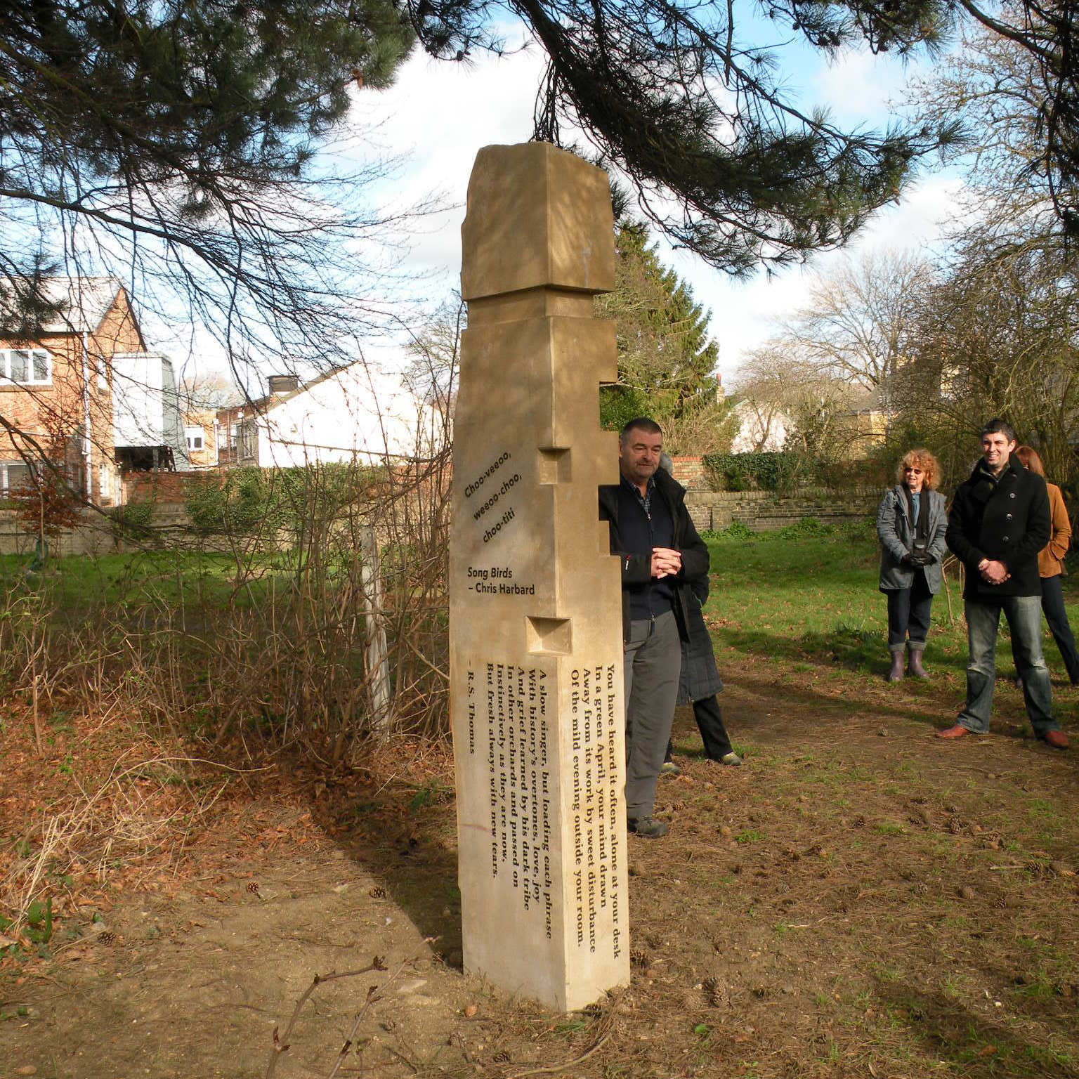 Sculptor Gordon Young next to his sculpture 'Blackbird' in the 'Bird Stones' series in Mill Road Cemetery.